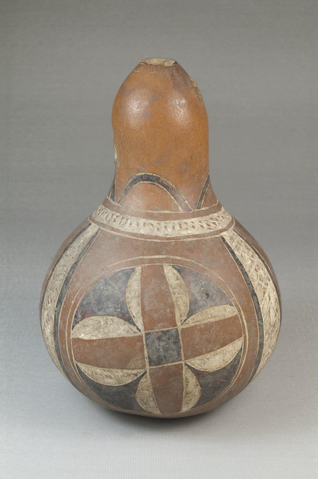 Reddish-brown calabash vessel with foliate (quatrefoil) decorative design in white, black and reddish brown. Opening at top of neck. Condition: very good.